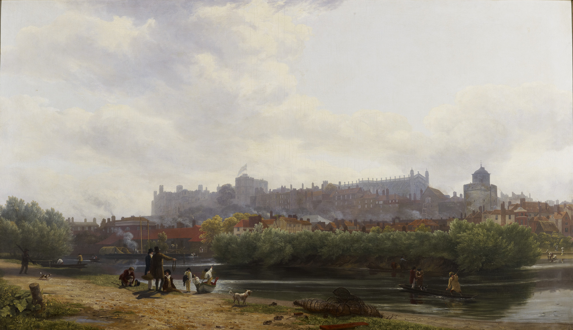 A view of Windsor Castle from the north-west, across the River Thames. An aquatint engraving of this picture was published as the frontispece (plate 1) of W.H. Pyne (1819) The History of the Royal Residences